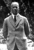 Robert Childers Barton at Glendalough House, Wicklow. Ireland